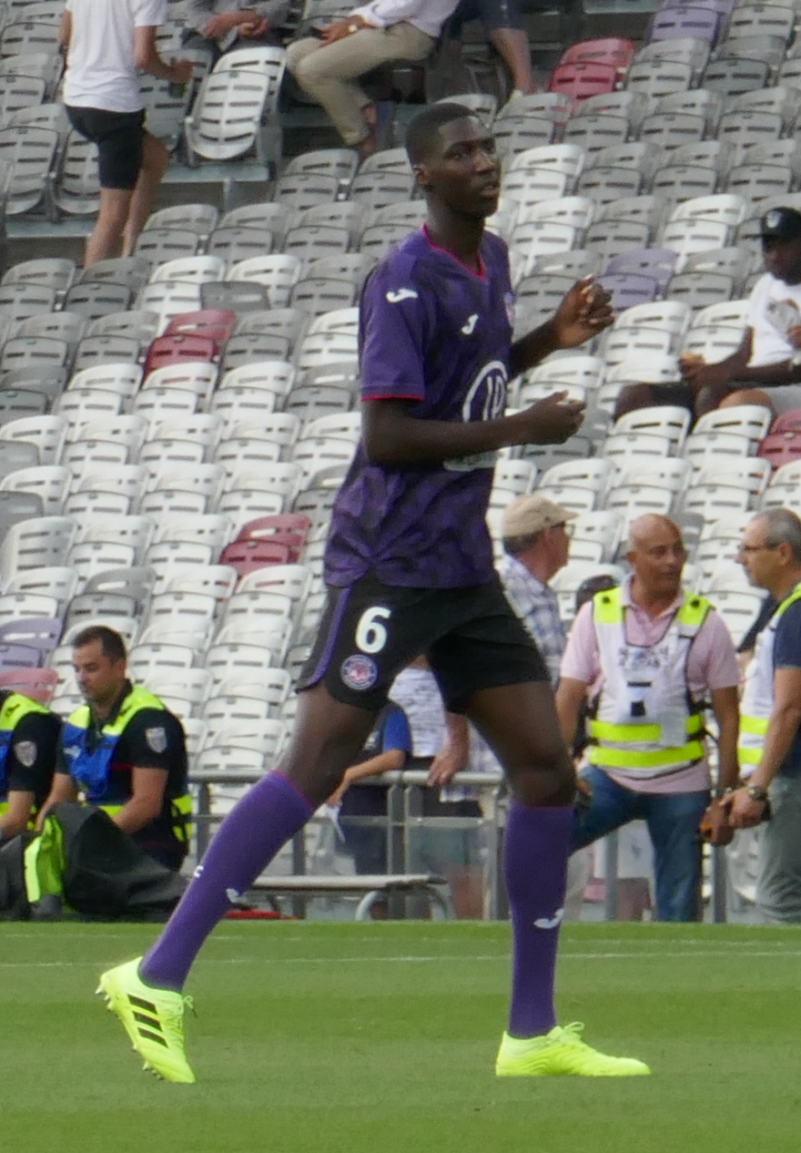 Kalidou Sidibé warming up on August 31, 2019 at the Toulouse Stadium. 4th day of the season 2019-2020 of Ligue 1, Toulouse FC - Amiens SC.